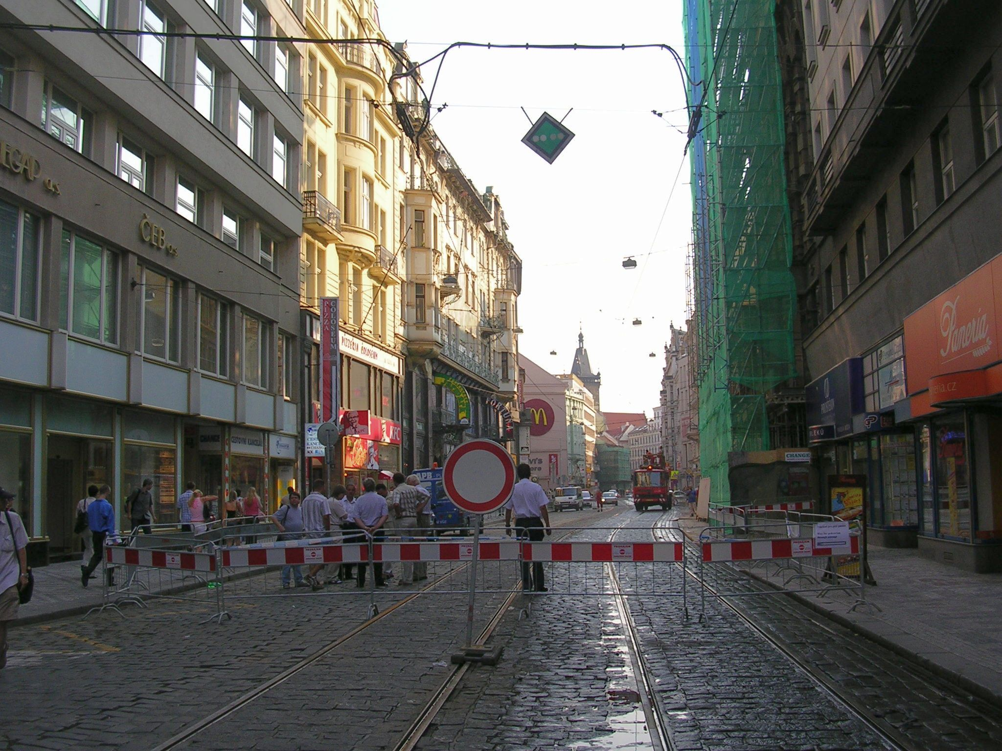 Prague-New Town, the Czech Republic. Vodičkova Street.